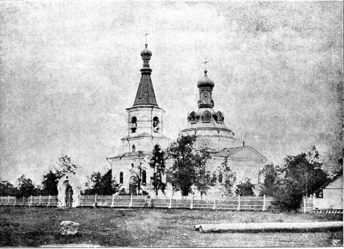 Kyyrölä orthodox church before Winterwar.